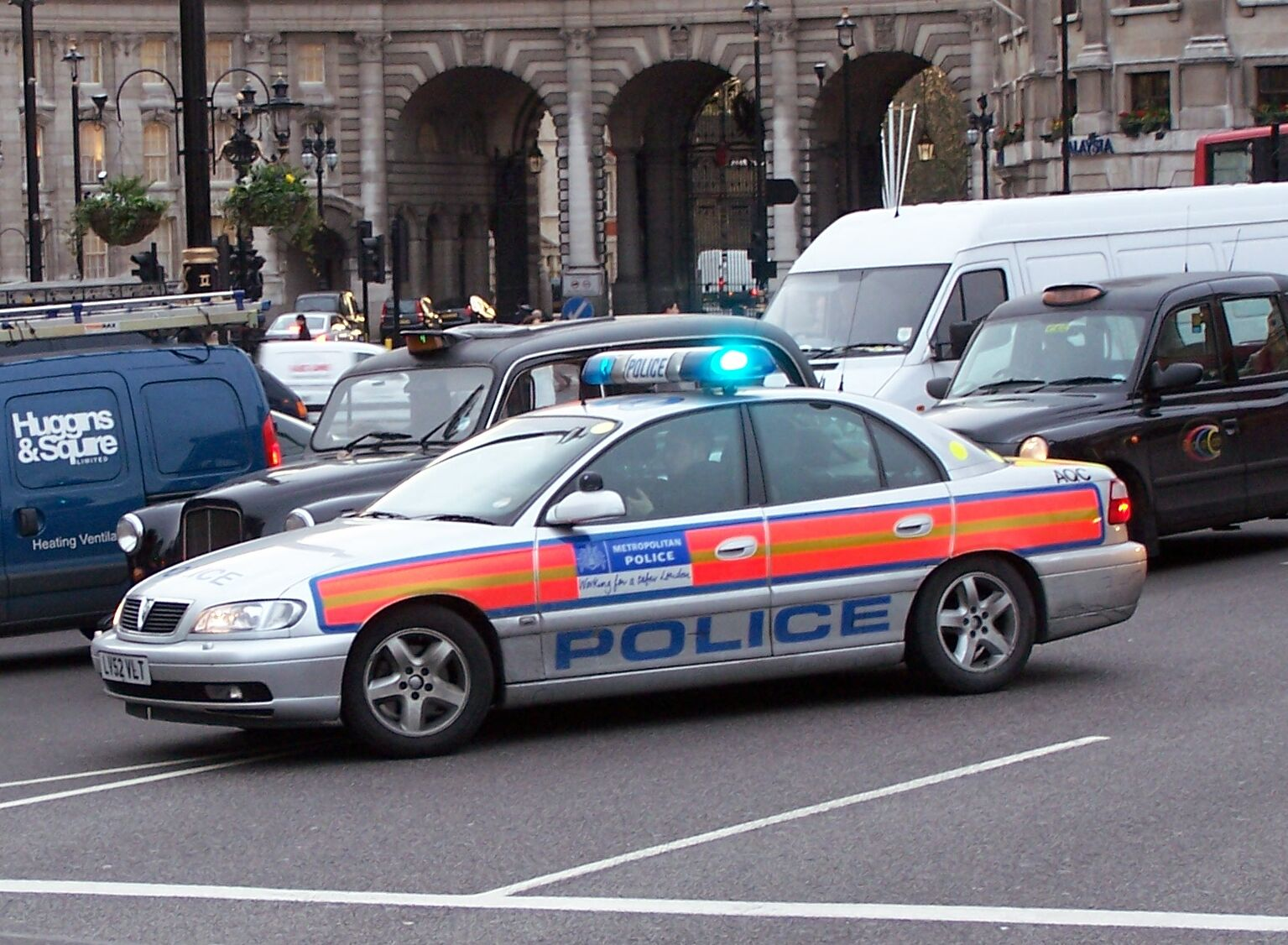 Car from the Metropolitan Police Service, London Taken at Trafalgar Square on 25 November 2005 Armed unit (notice the yellow dot)